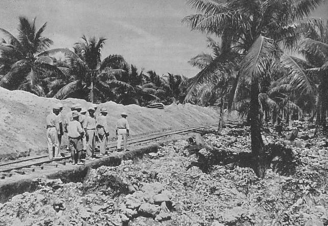 Phosphate mining in Fais Island